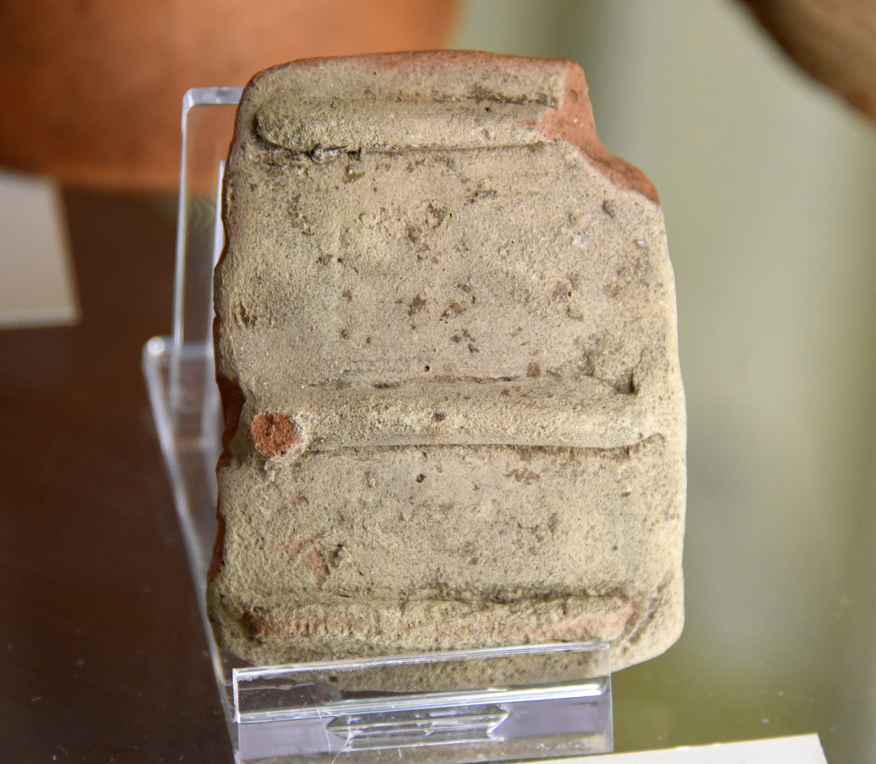 Fragment of pottery door granary, used as a lamp. Probably dates back to the 2nd intermediate period. Probably from Cemetery W at Diospolis Parva (Hu), Egypt. The Petrie Museum of Egyptian Archaeology, London. With thanks to the Petrie Museum of Egyptian Archaeology, UCL.